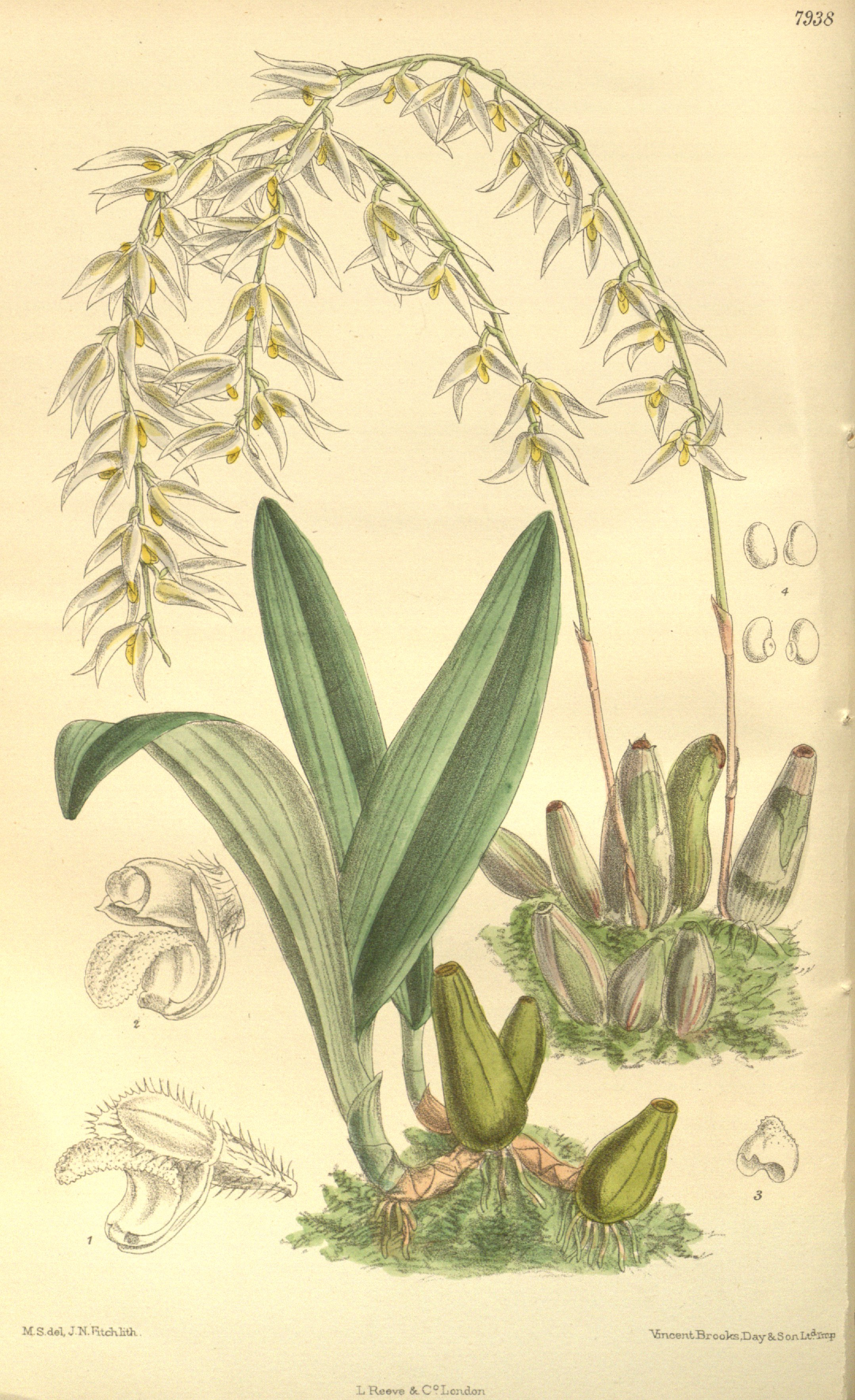 Illustration of Bulbophyllum auricomum